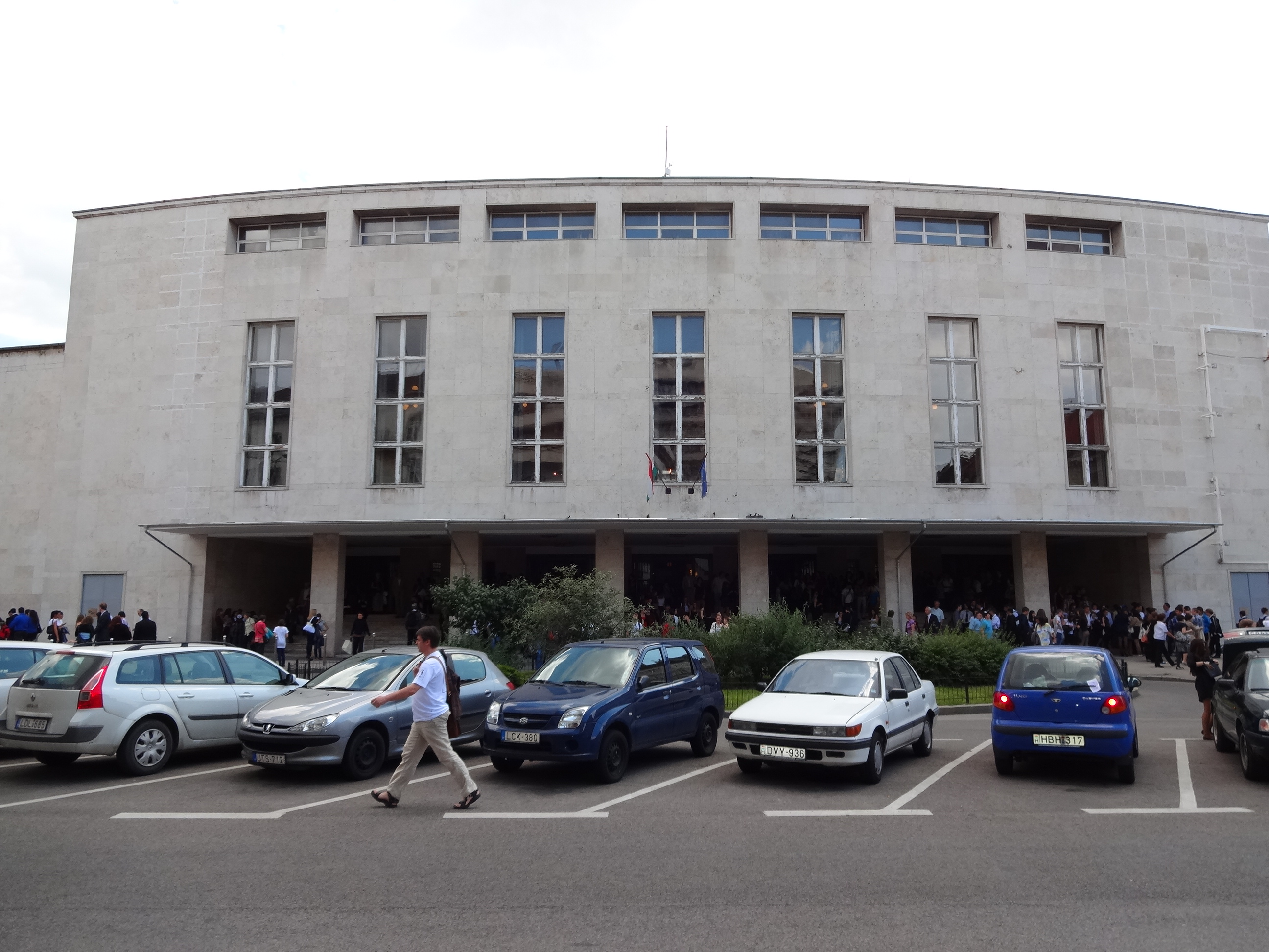 Erkel Theatre in Budapest, June 2013